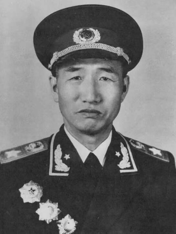 Xu Xiangqian